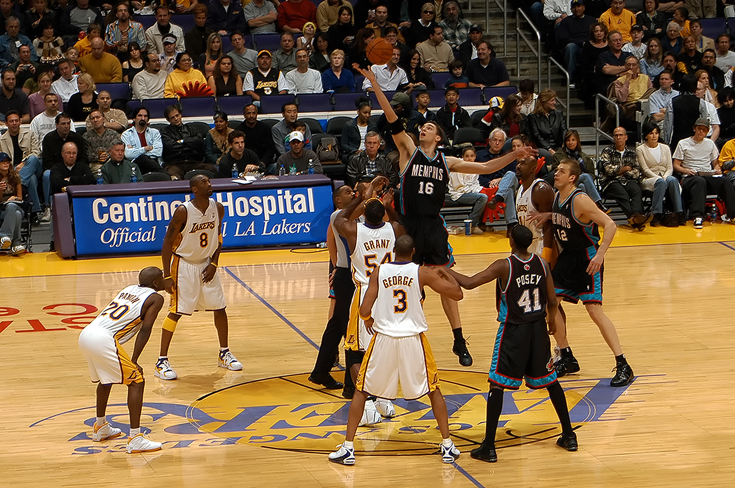 Los Angeles - California - USA. Foto realizada con una Nikon D100 en formato JPG sin procesar. Picture made with Nikon D100 in JPG format without post-processing.